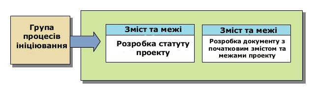 Initiating Process Group Processes